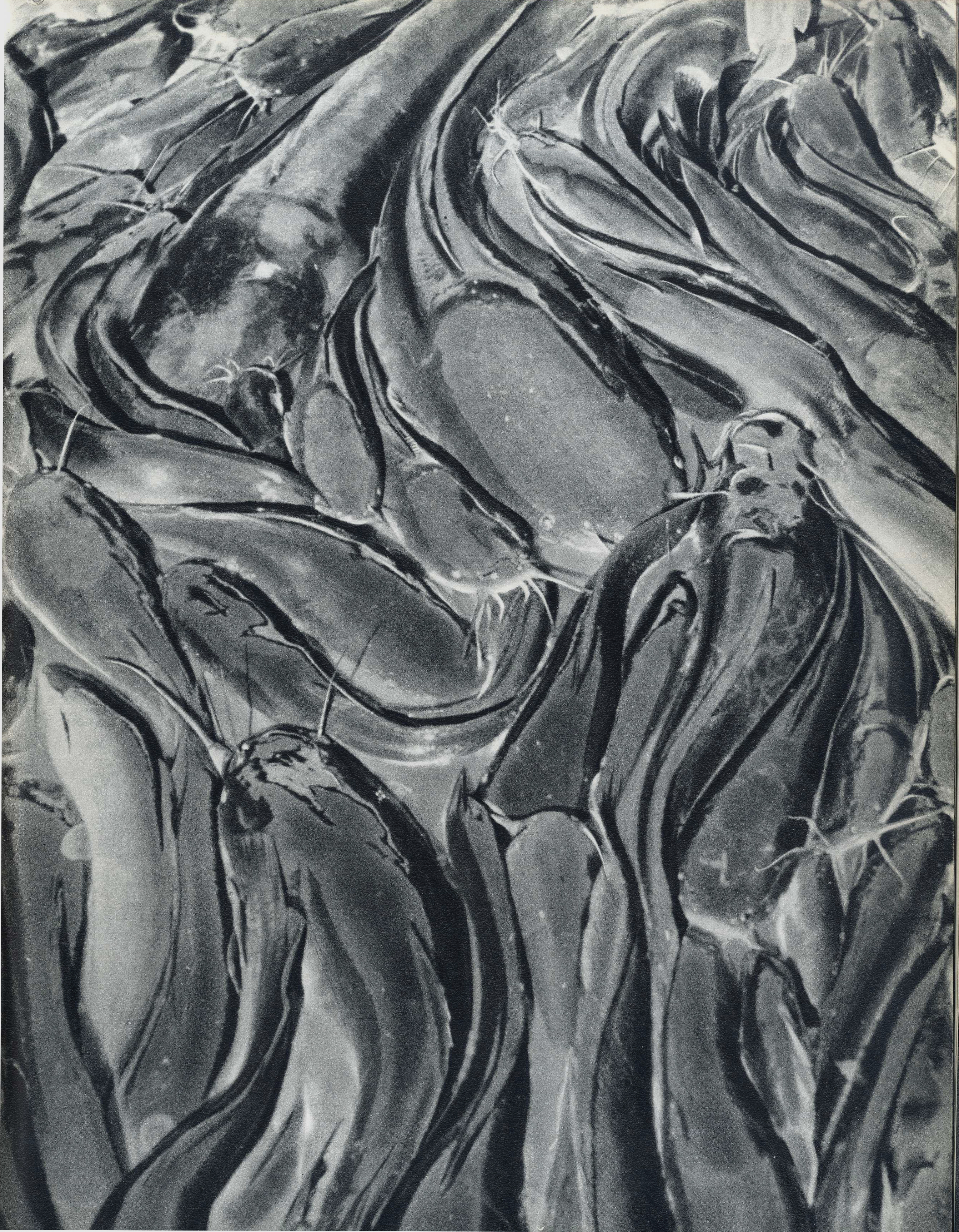 from "Song of a Dying Lake" by Peter Mirom, 1960.